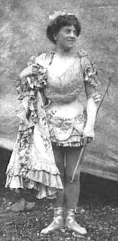 A young white woman, standing in a short corseted costume, with her hair in a bouffant updo. She is holding a stick in one hand and a cloak in the other.